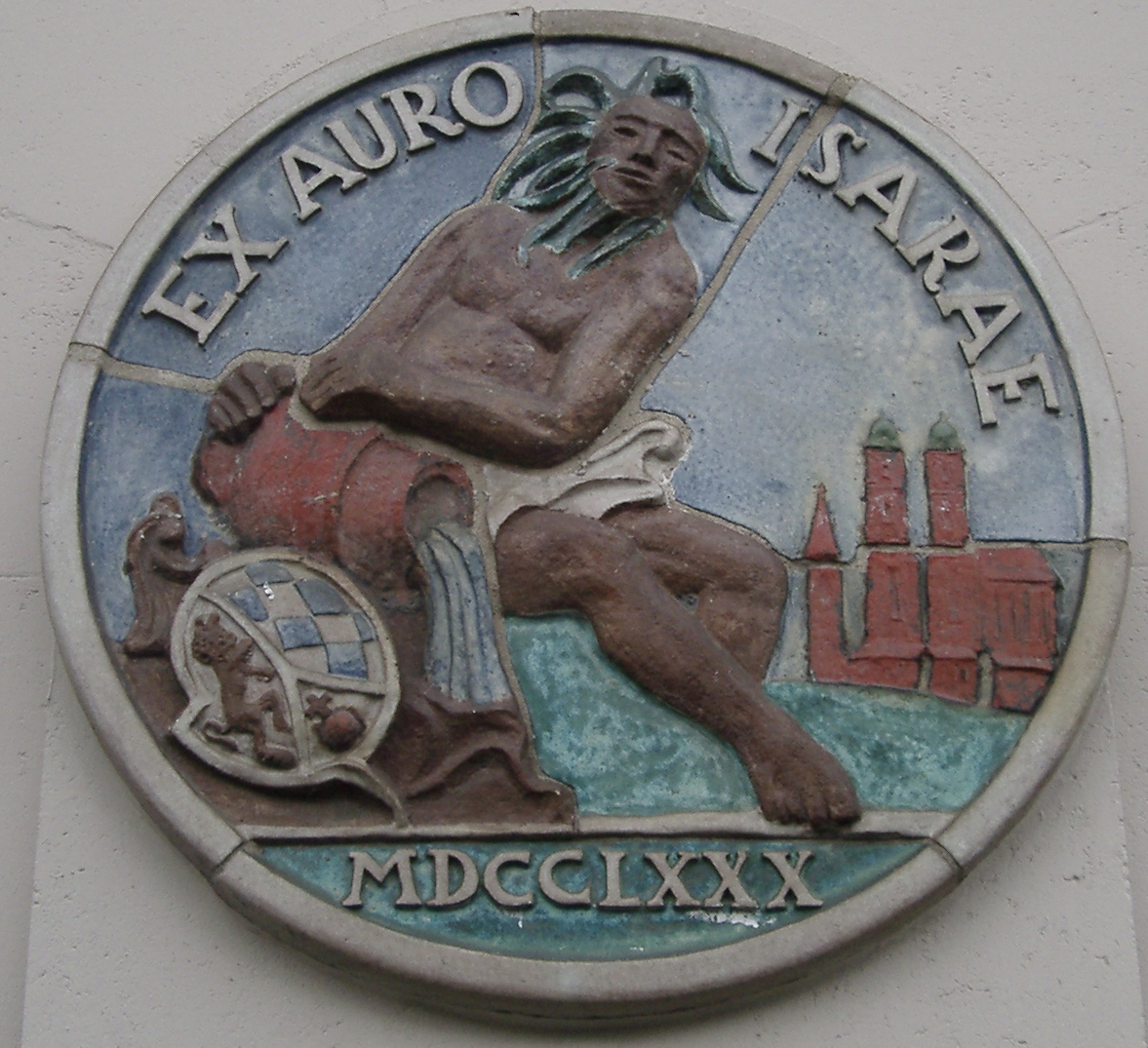 Relief found in Düsseldorf EX AURO ISARAE MDCCLXXX (from the gold of the Isar 1780), which is a reference to gold taken out of the Isar River in Bavaria to make gold coins. Why this sign is in Düsseldorf, is unknown to the photographer.